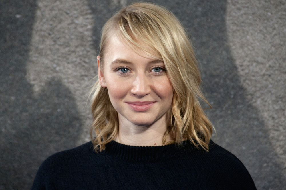 The German actress Anna Maria Mühe at the Photocall "MITTEN IN DEUTSCHLAND: NSU" (04.02.2016; Berlin) - Emilio Esbardo, writer, journalist, photographer